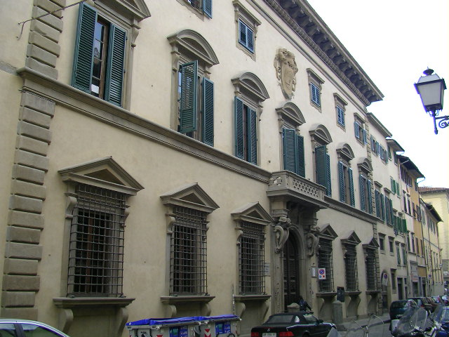 Palace in San Gallo Street detail 3 in Florence, Italy